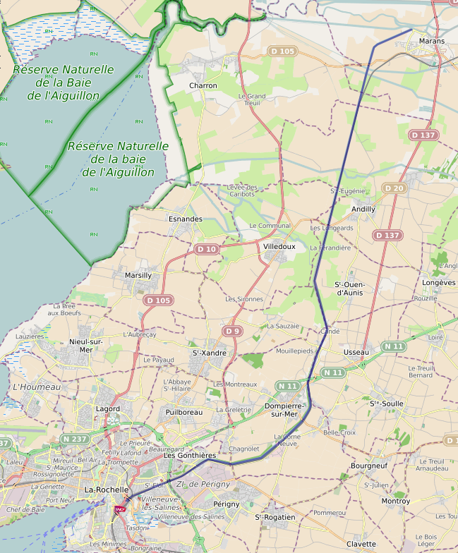 The canal of Marans in La Rochelle (in blue) in the department of Charente-Maritime (France).